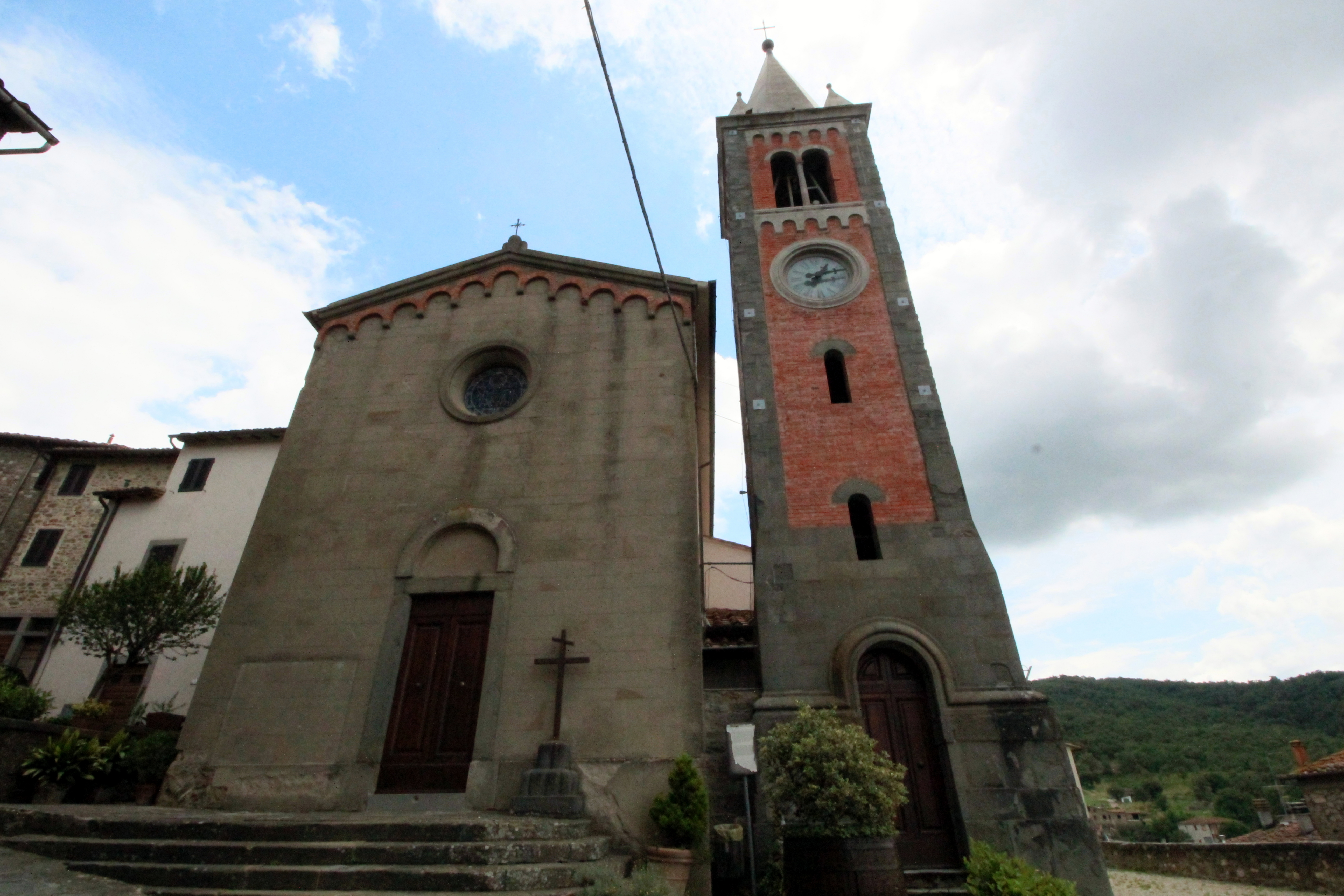 Church of Santa Maria Assunta in Ambra, hamlet of Bucine, Province of Arezzo, Tuscany, Italy